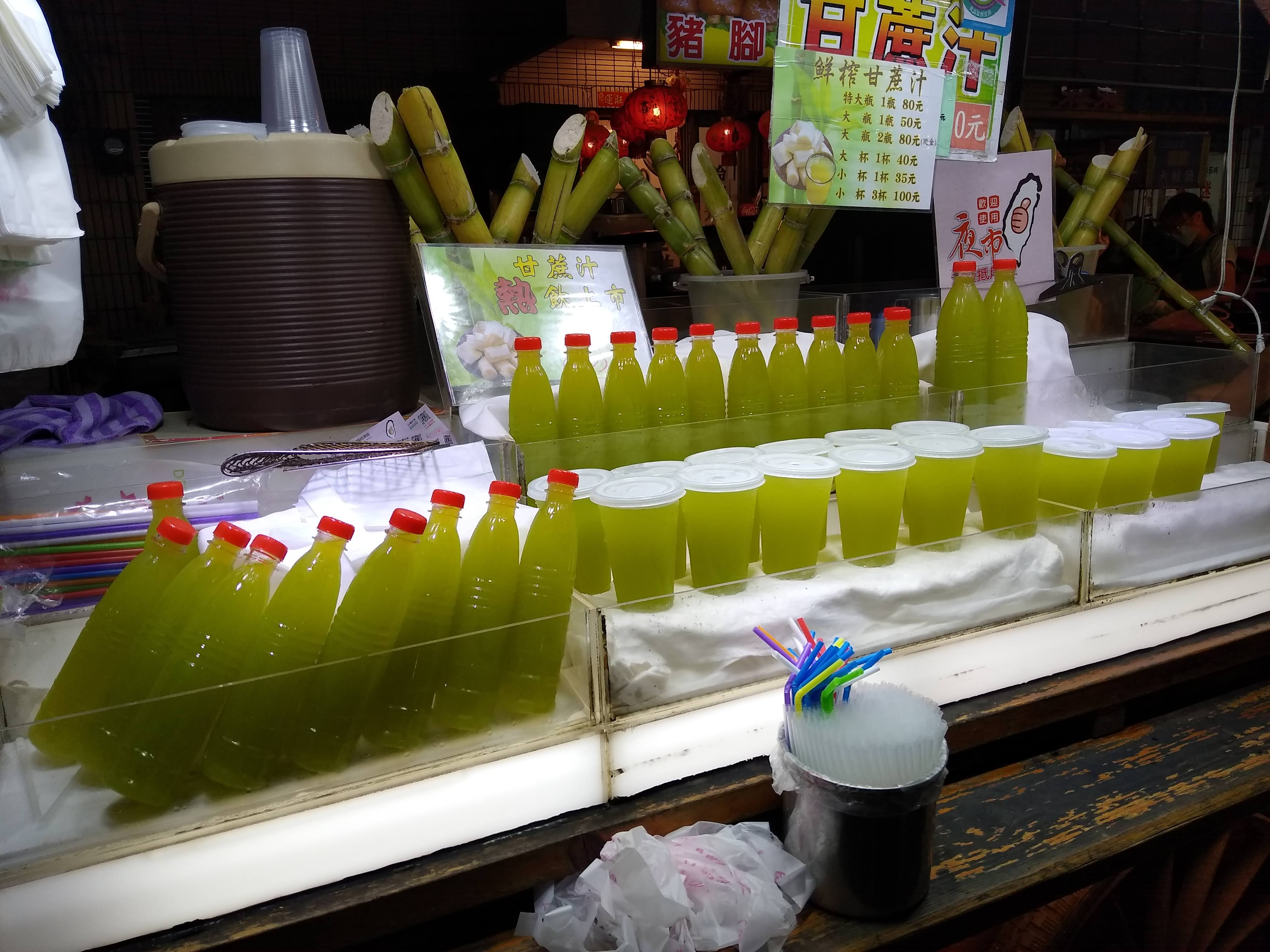 在六合夜市卖甘蔗汁